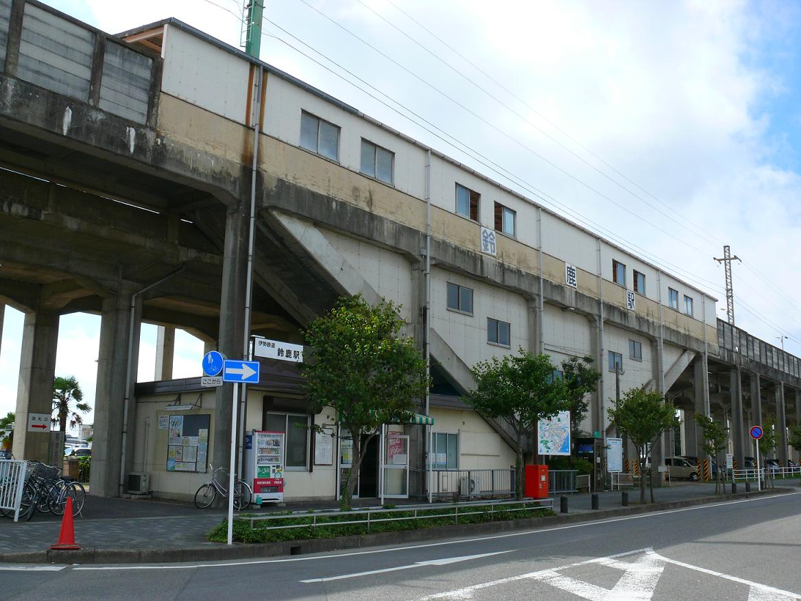 Ise Railway Suzuka-Station(Japan). It takes a picture of the station at Suzuka Station in the Ise railway line from the public road. 伊勢鉄道伊勢線鈴鹿駅の駅舎を公道から撮影。